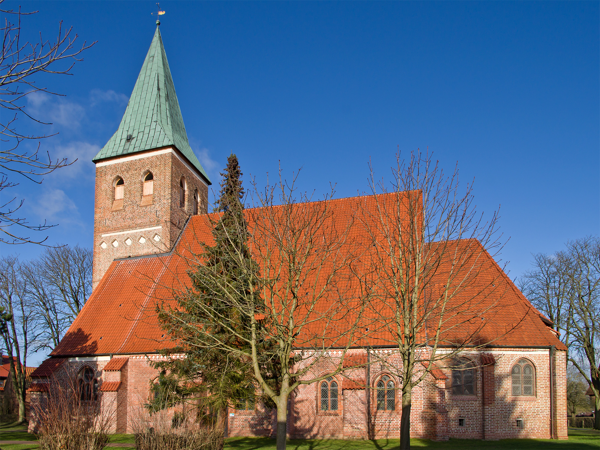 Church of the small village Plate near Lüchow (district Lüchow-Dannenberg, northern Germany).